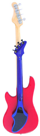 Image Credit: Kelly Frazier, Large Sound